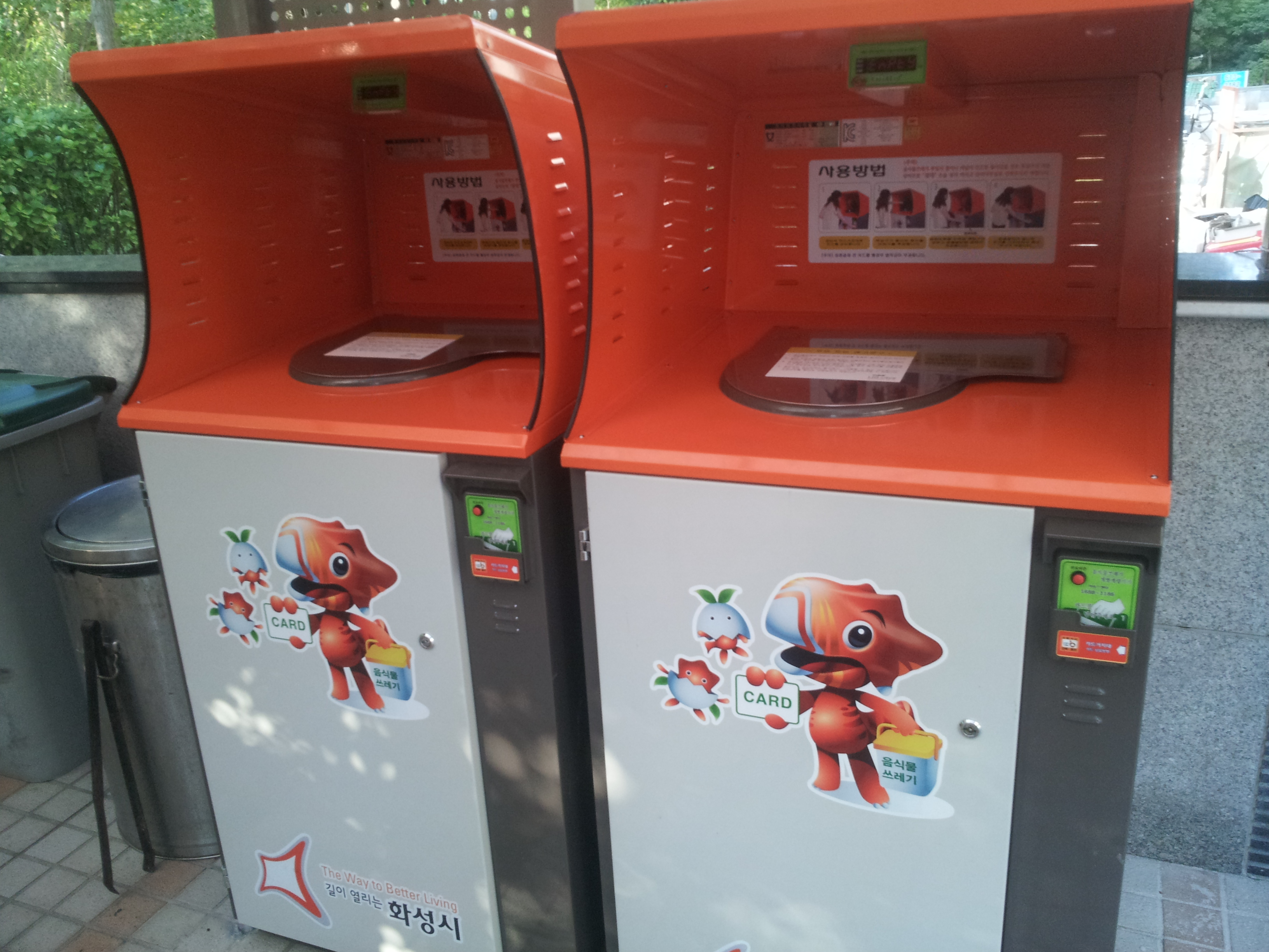 Food waste processor, trashing the waste and pay from the device.